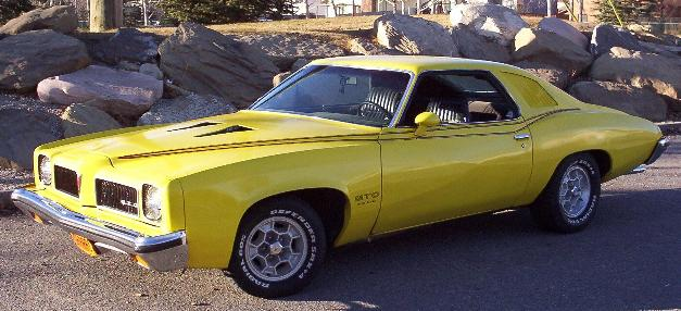 Author: Peter Eric Bruner Source: The A-Body Site, Photo Date: November 12, 2006 Photo Location: 50.906818, -114.075626 - THE BARN - Shawnessy District, Calgary, Alberta, Canada